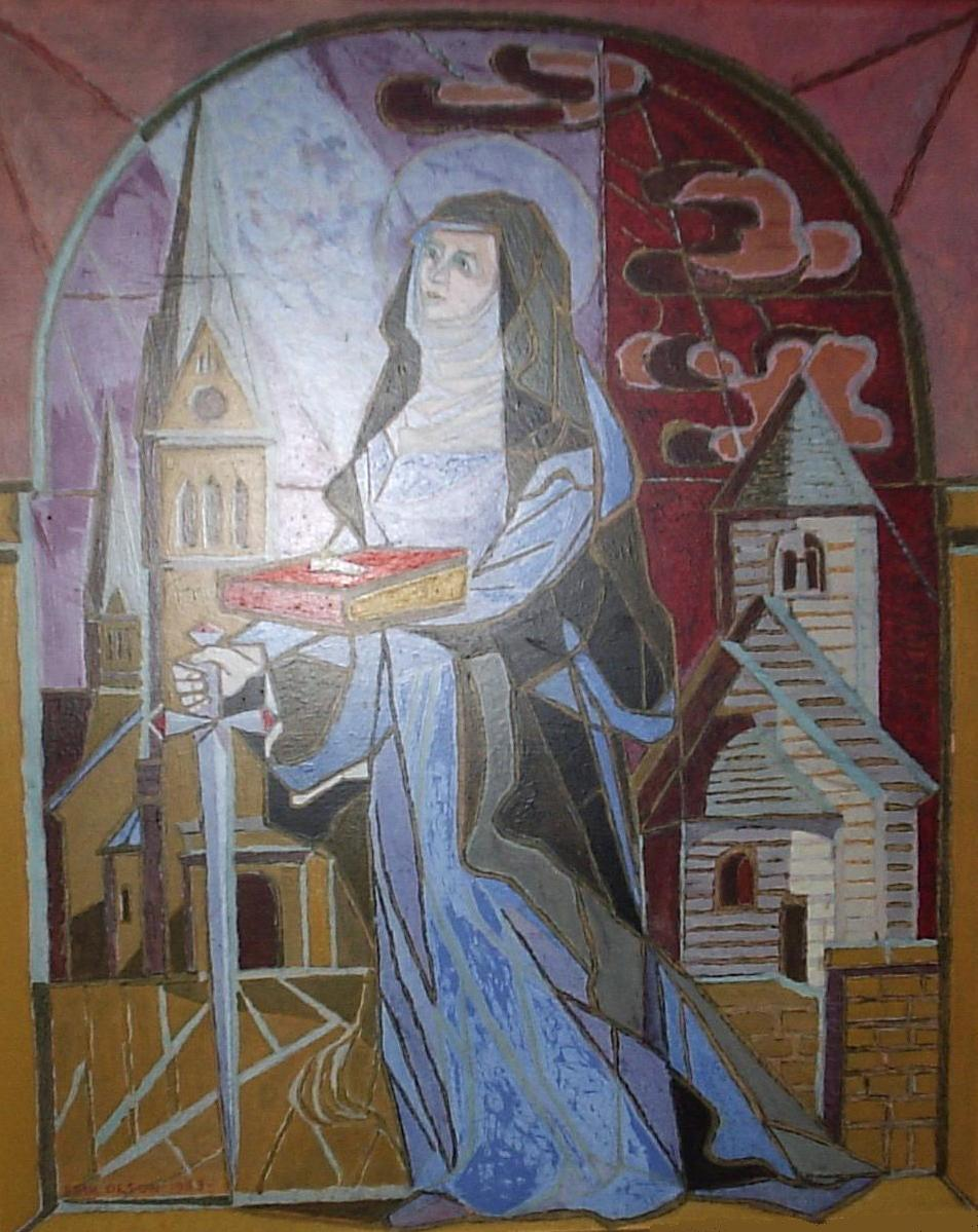 Saint Helena of Skövde (Sankta Elin av Skövde). Photo by Harri Blomberg.